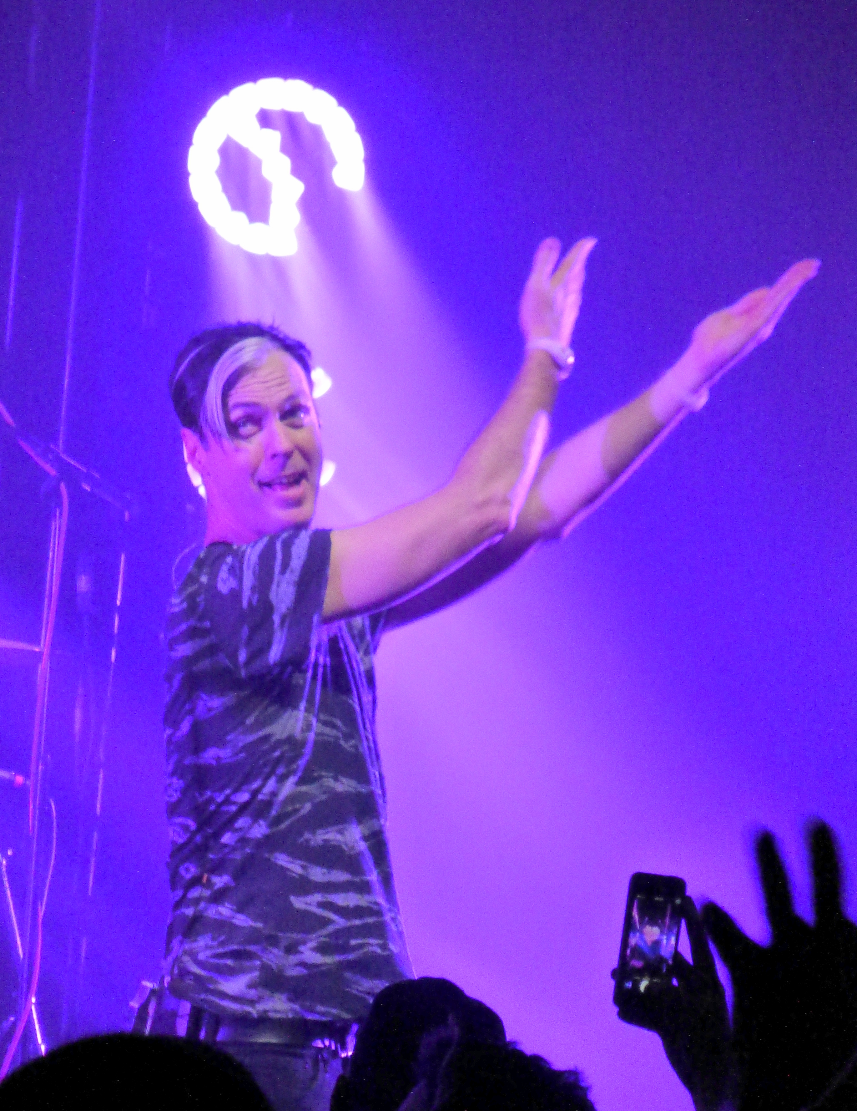 Michael Fitzpatrick of Fitz and the Tantrums performing live in concert at The Fillmore in Detroit MI, 11/18, 2014